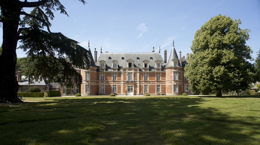 This building is en partie classé, en partie inscrit au titre des Monuments Historiques. It is indexed in the Base Mérimée, a database of architectural heritage maintained by the French Ministry of Culture, under the references PA00101024 and PA00101064 .